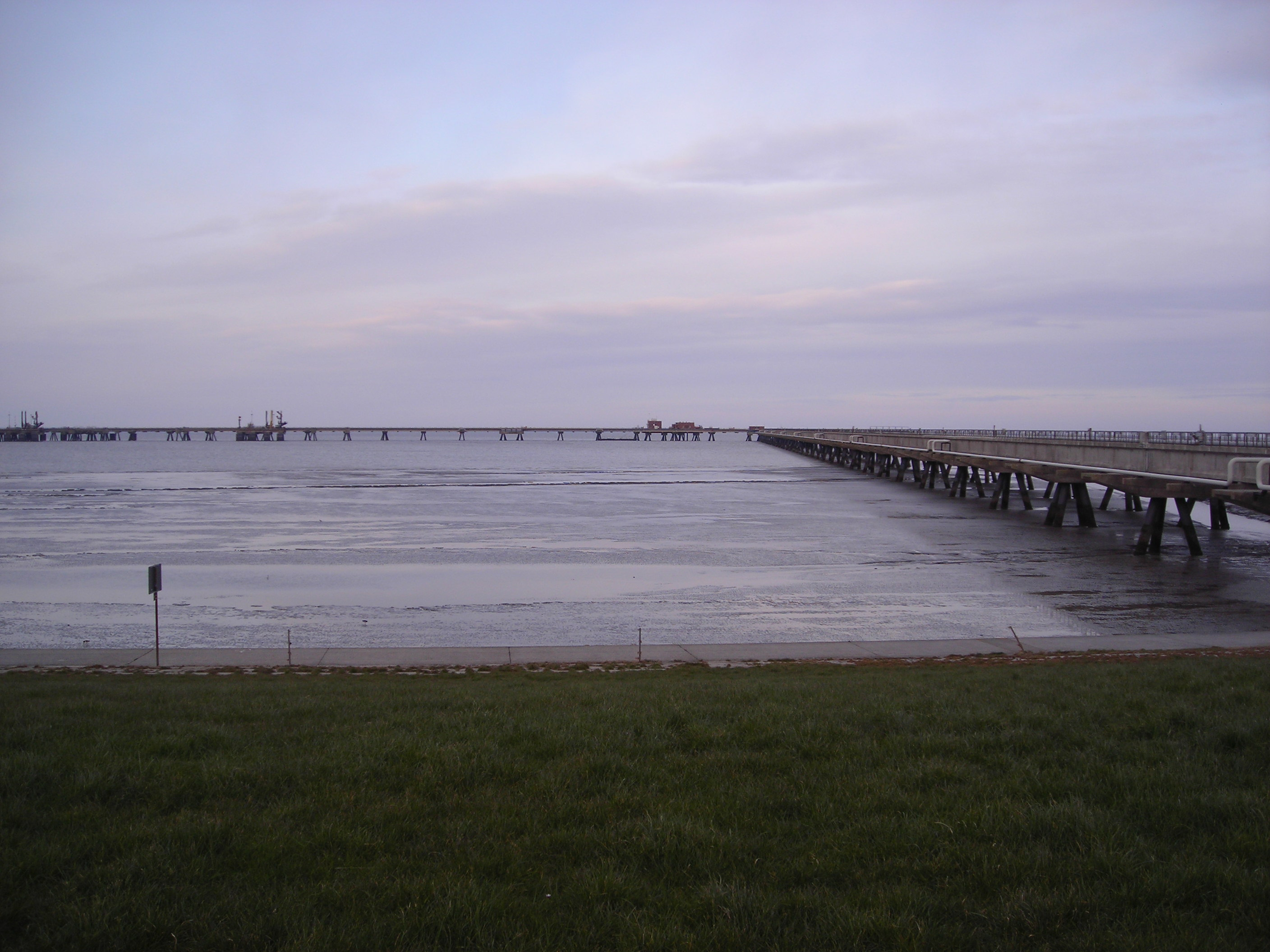 Chemical pier at the Jade River, Wilhelmshaven, Germany